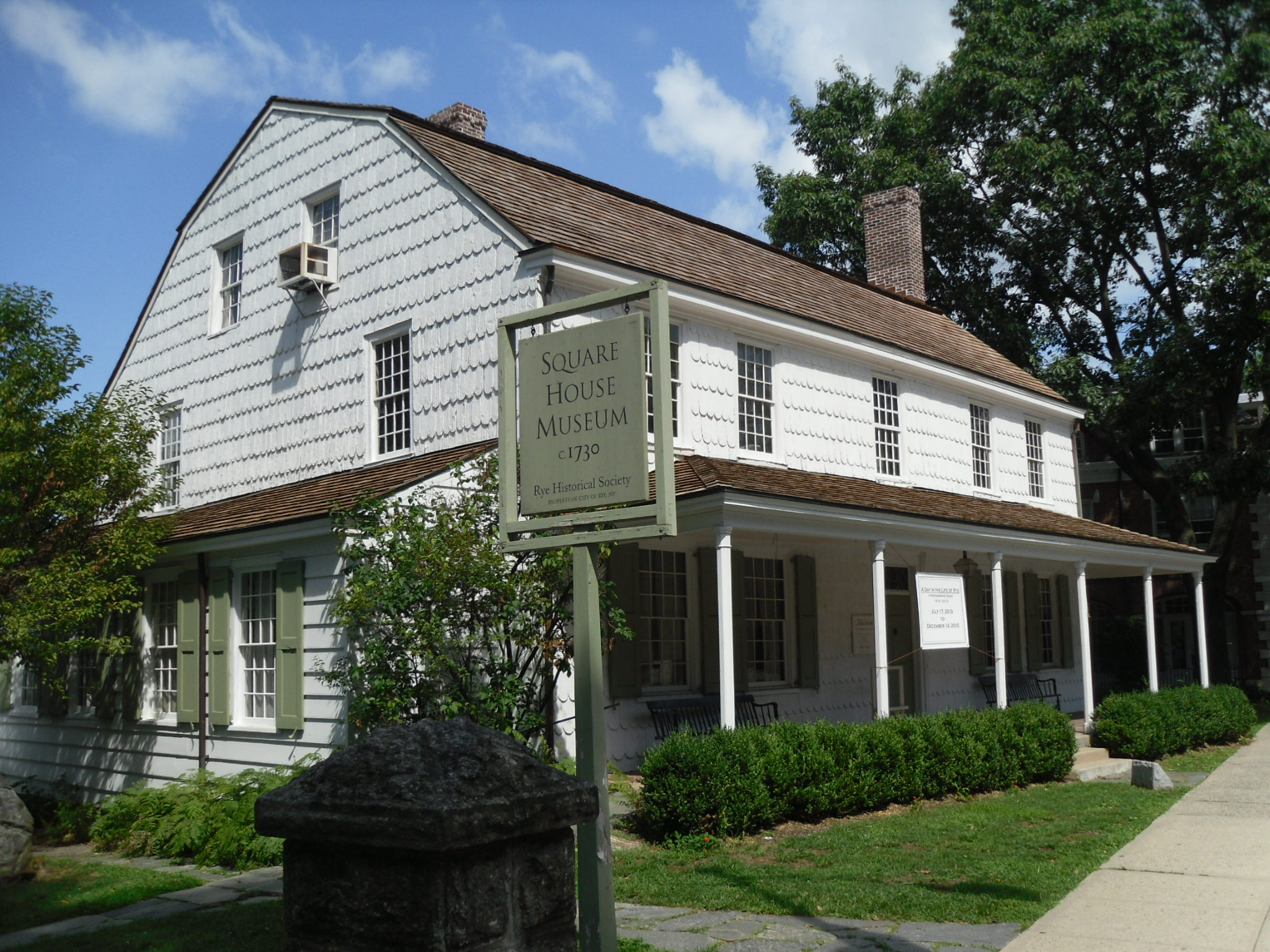 Rye, New York